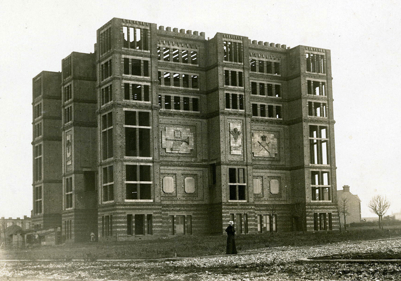 Image of Jezreel's tower c 1910 in family collection bequeathed to me